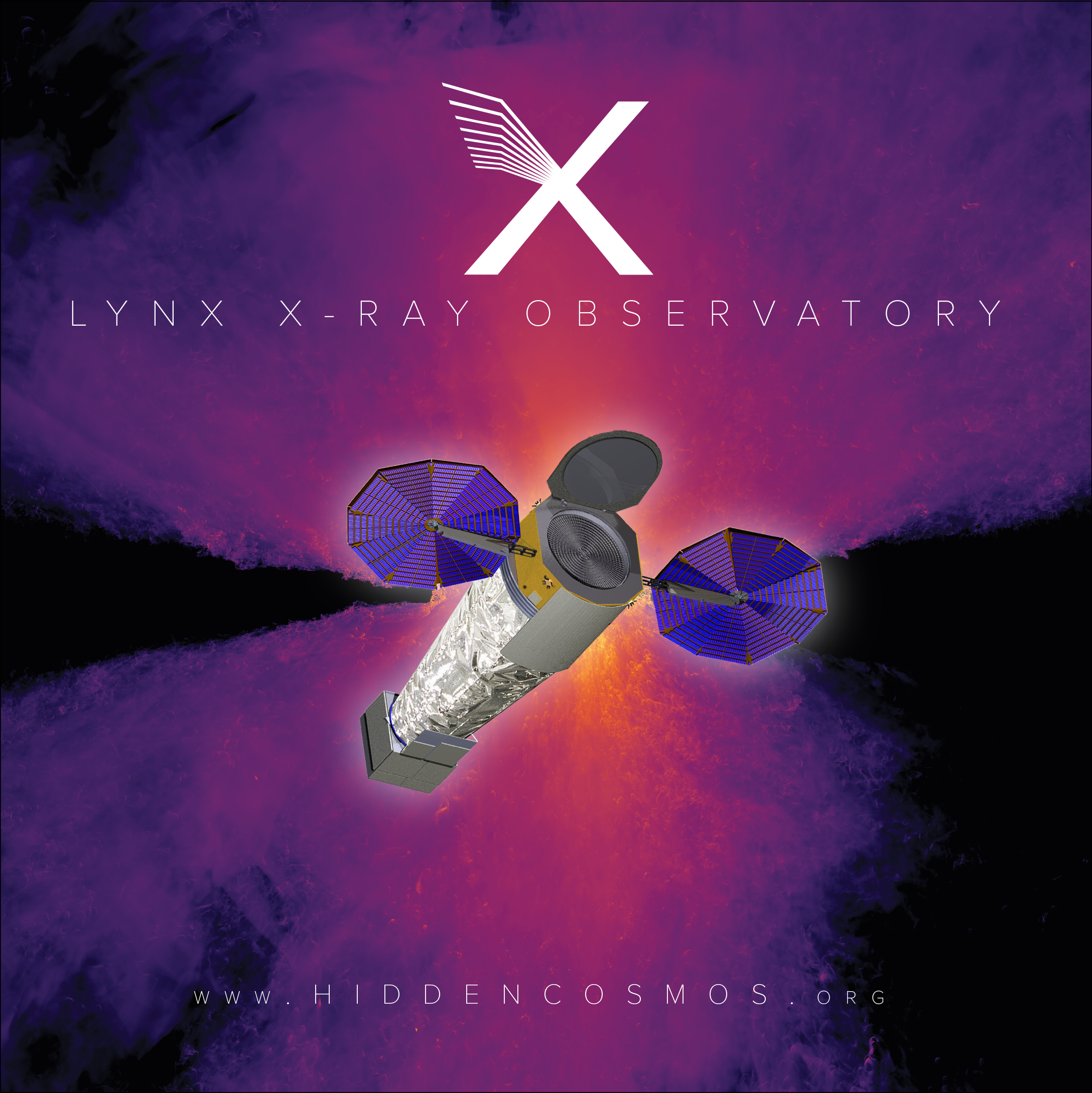 Lynx is a NASA-funded Large Mission Concept Study presented to the 2020 Decadal Survey in Astronomy and Astrophysics